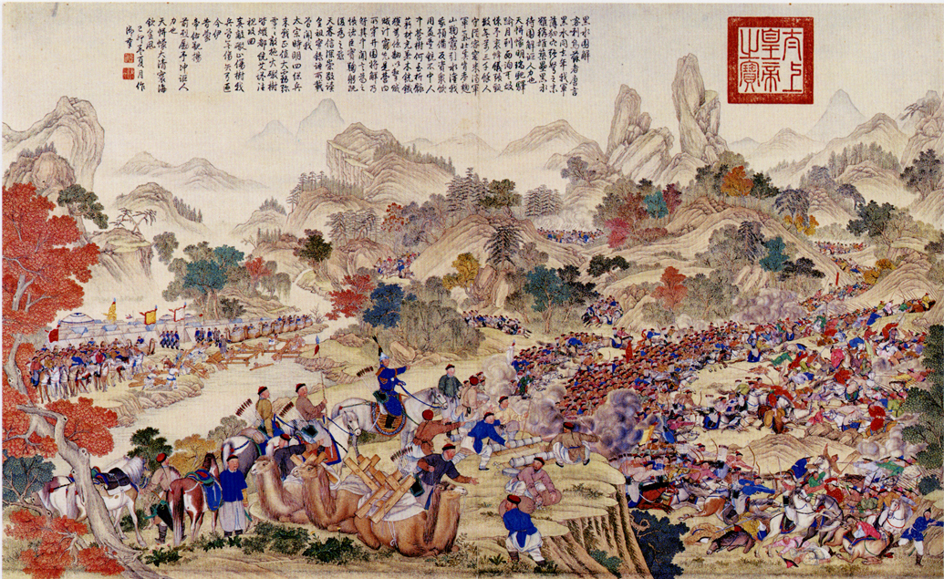 Illustrates the final submission of the region of Kashgar. In 1758 there were still two rebel strongholds, one at Yarkand and one at Kashgar. Zhao Hui was unable to take Yarkand, moved east but was forced to retreat by the rebels, who lay siege to him at the Black River. In 1759, Zhao Hui learnt of the imminent arrival of relief troops, and so stormed the rebel town and brought the rebellion to an end.